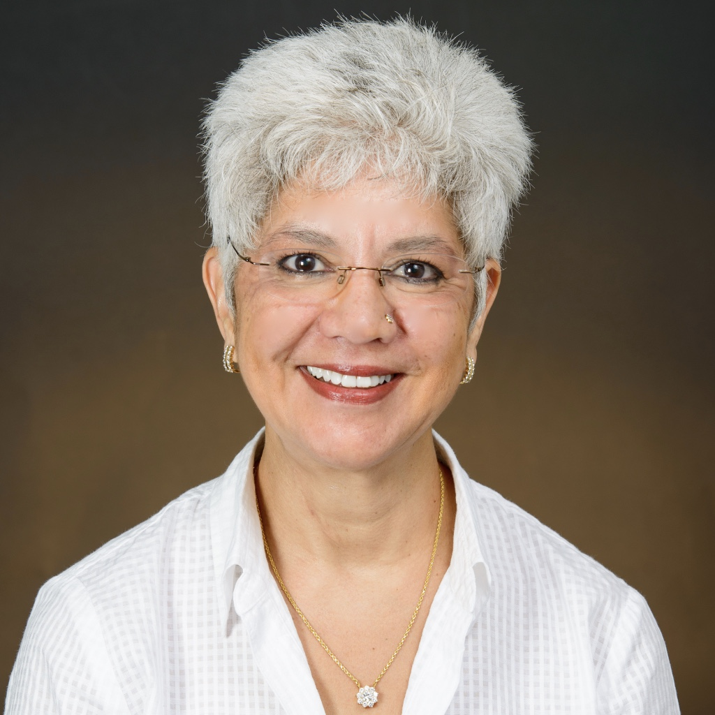 Foundation Professor of Psychology, Arizona State University Professor Emerita, Columbia University's Teachers College